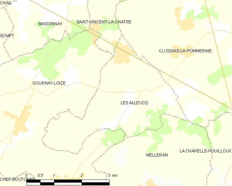 Map of French municipality Les Alleuds